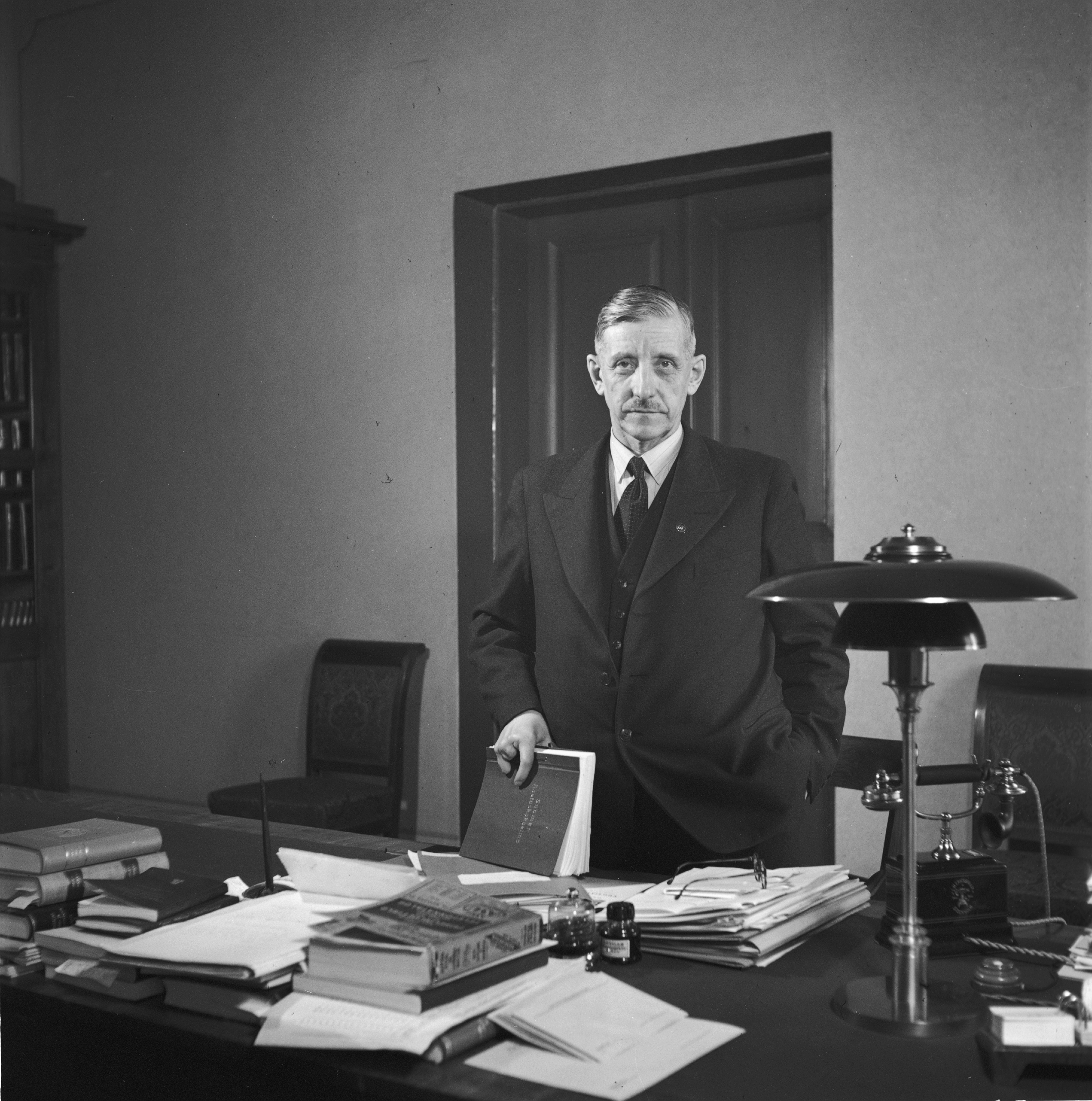 Photograph of the Finnish politician Juho Koivisto (1885–1975).